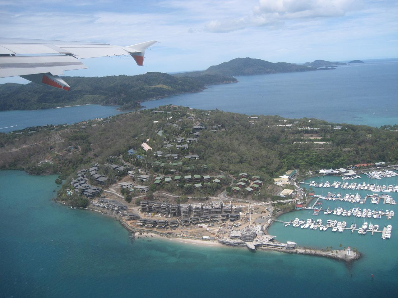 Hamilton Island, Queensland with Whitsunday Island in the background